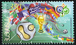 Stamp of Armenia